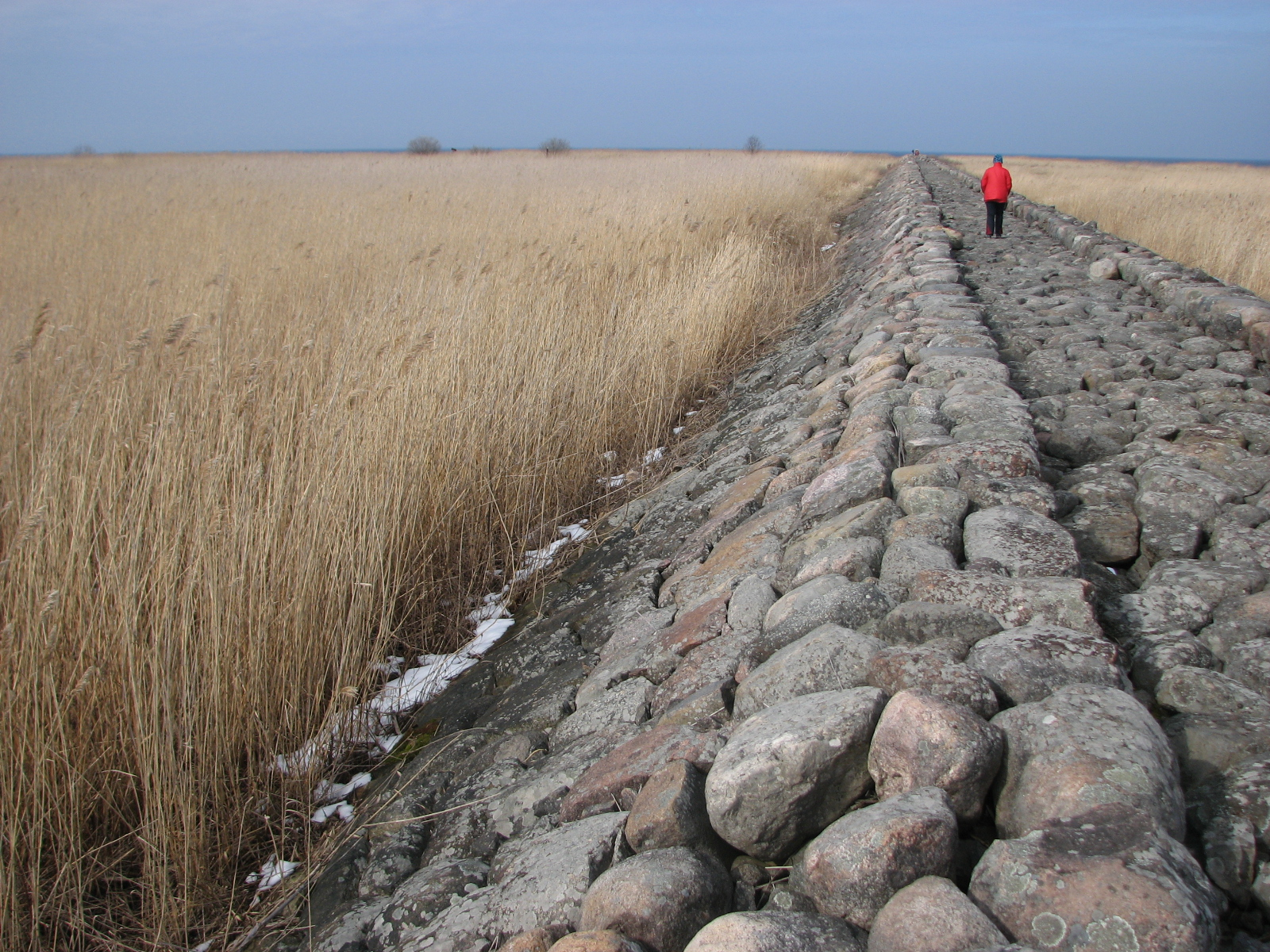 North Pier, Ainaži, Latvia